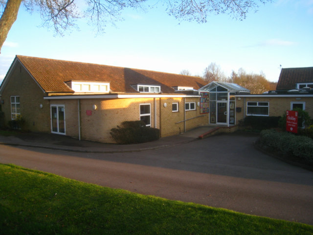 Photo of Oakley Junior School